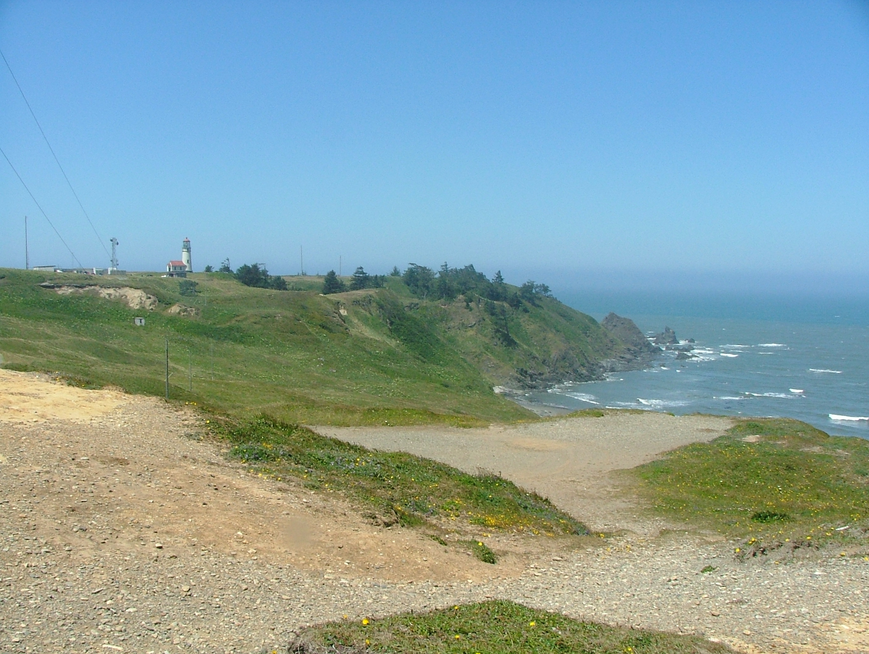 Cape Blanco, Oregon and the lighthouse.